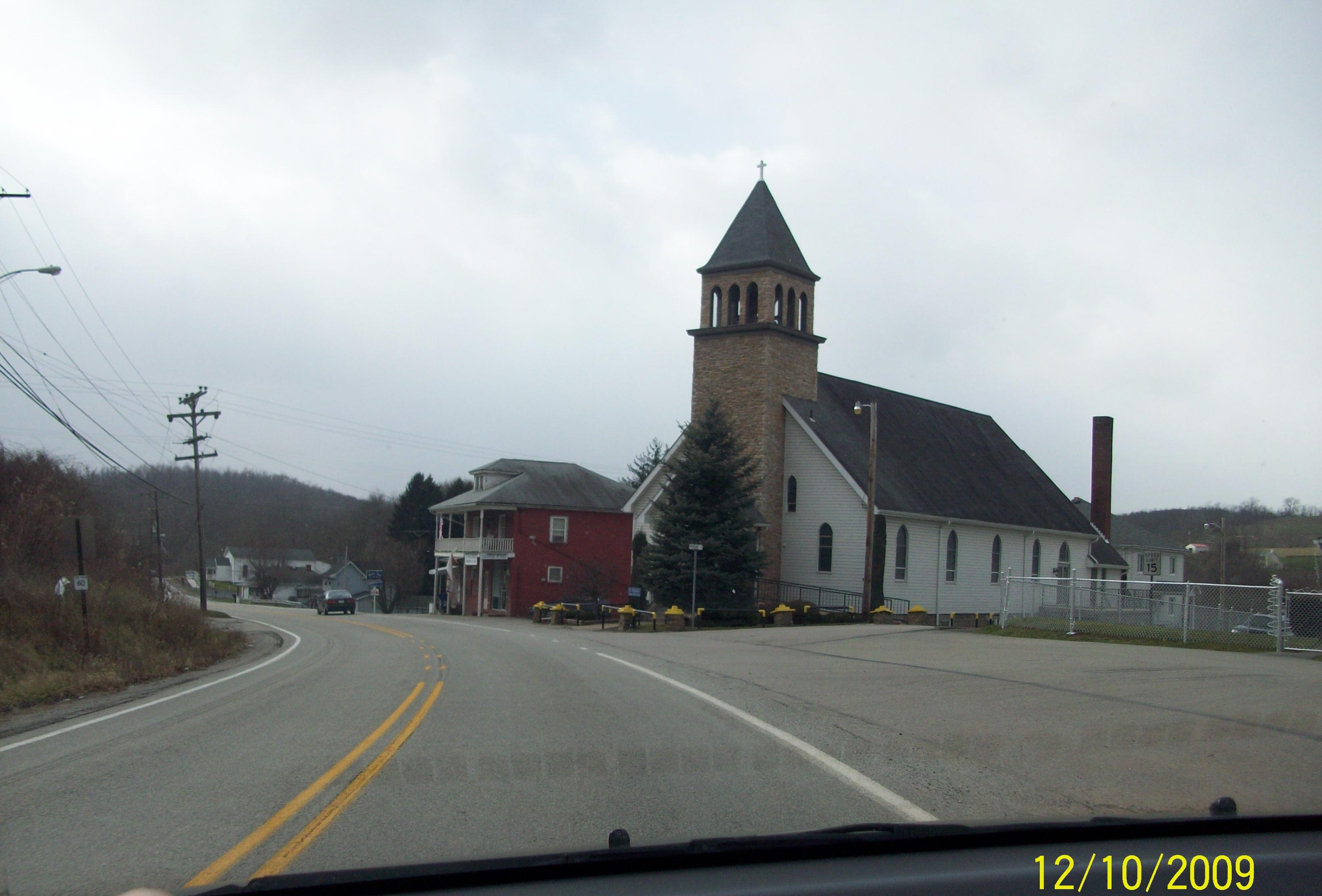 Catholic Church and Grindstone Post Office on rural Tippecanoe Road.,Redstone Township, Fayette County, Pennsylvania